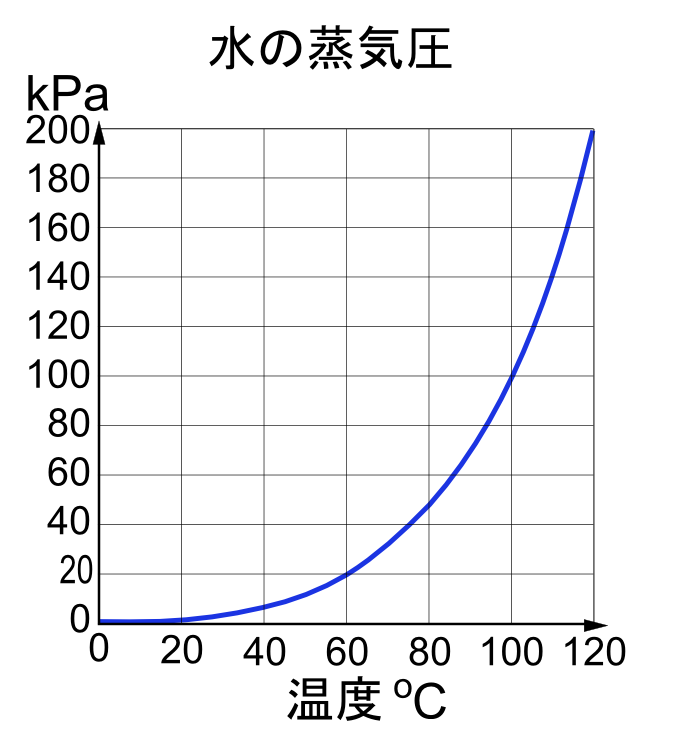 Vapor pressure of water graph (kPa - Celsius)